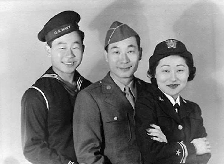 In 1942, like many Korean Americans, the three Ahn siblings, Ralph, Philip, and Susan, children from California's first Korean immigrant family, enlisted in the U.S. military. The Ahn sister, Susan Ahn Cuddy, was the first Korean American woman in the U.S. military and the first female Navy gunnery officer. For her service in the WAVES, she reached the rank of Lieutenant.